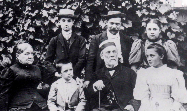 Front: Marie and Louis Pasteur with their grandchildren Louis and Camille. Rear: Pierre Vallery-Radot, René Vallery-Radot and his wife Marie-Louise Pasteur